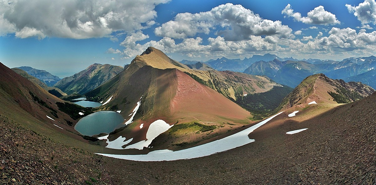 Mt. Alderson seen from west. Waterton Lakes National Park, Alberta, Canada